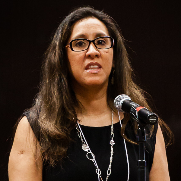 The English Education Program in the Department of English presents the fifth annual Día De Los Niños / Día De Los Libros celebration of kids, language, and culture. Special guests include young adult literature (YA) authors René Saldaña, Aprilynne Pike, Tom Leveen, Amy Nichols, Ryan Dalton, Austin Aslan, Isabel Quintero, and Bill Konigsberg, and author/illustrator Juana Martinez-Neal. In addition, the Son Jarocho Collective in Arizona will perform and lead a workshop. Additional event partners include ASU College of Liberal Arts and Sciences, Phoenix Book Company, and Dunkin' Donuts.